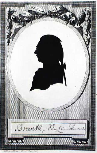 Erich "Erik" Otto Knoph Branth (1756-1825), Danish naval officer